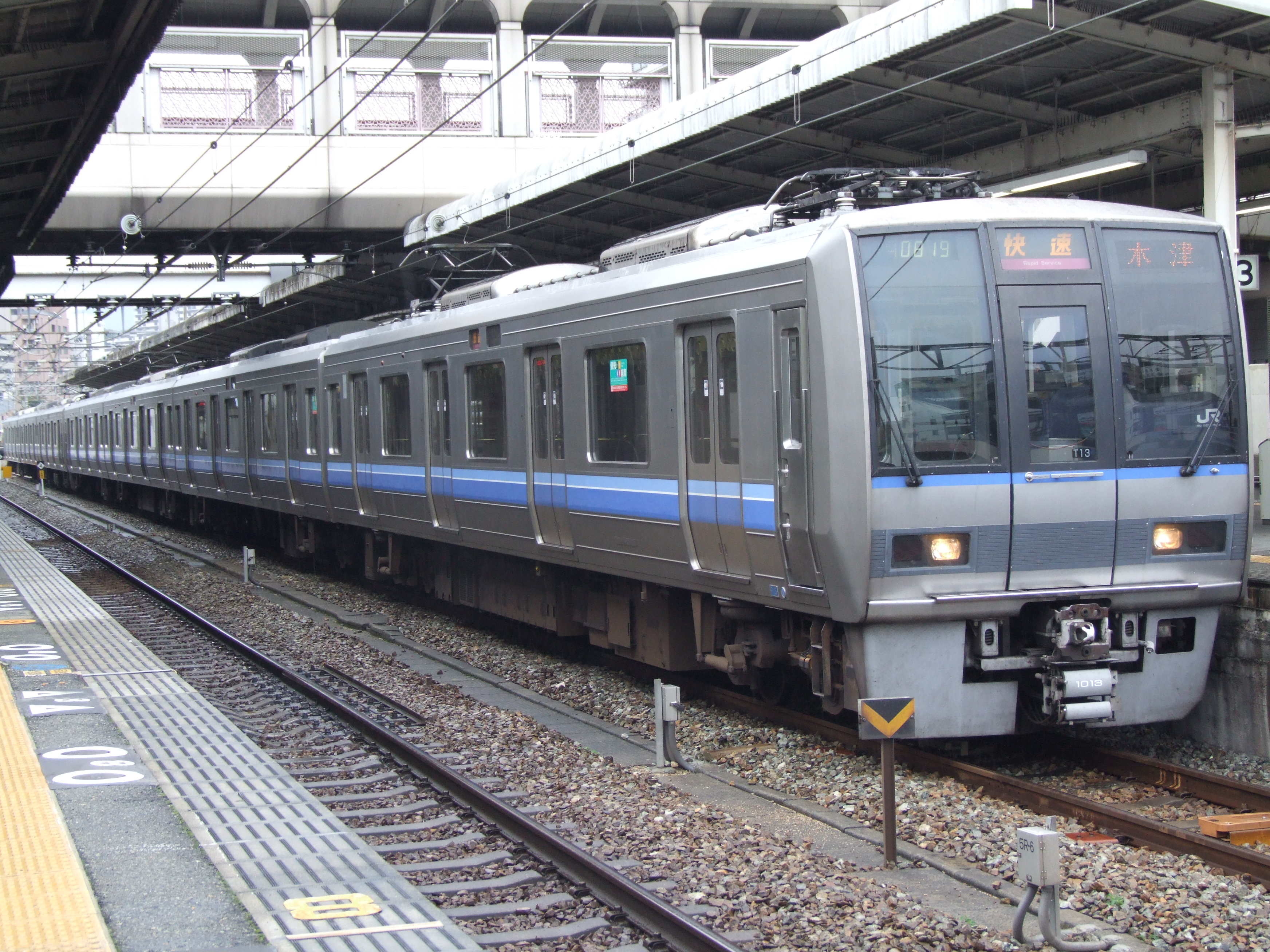 JR West Type 207 trainset.